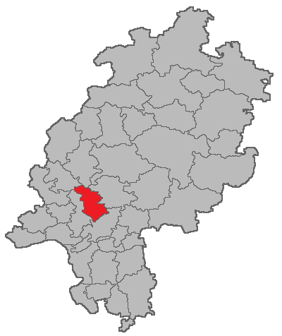 Map of the district court Bad Homburg v. d. Höhe in Hesse